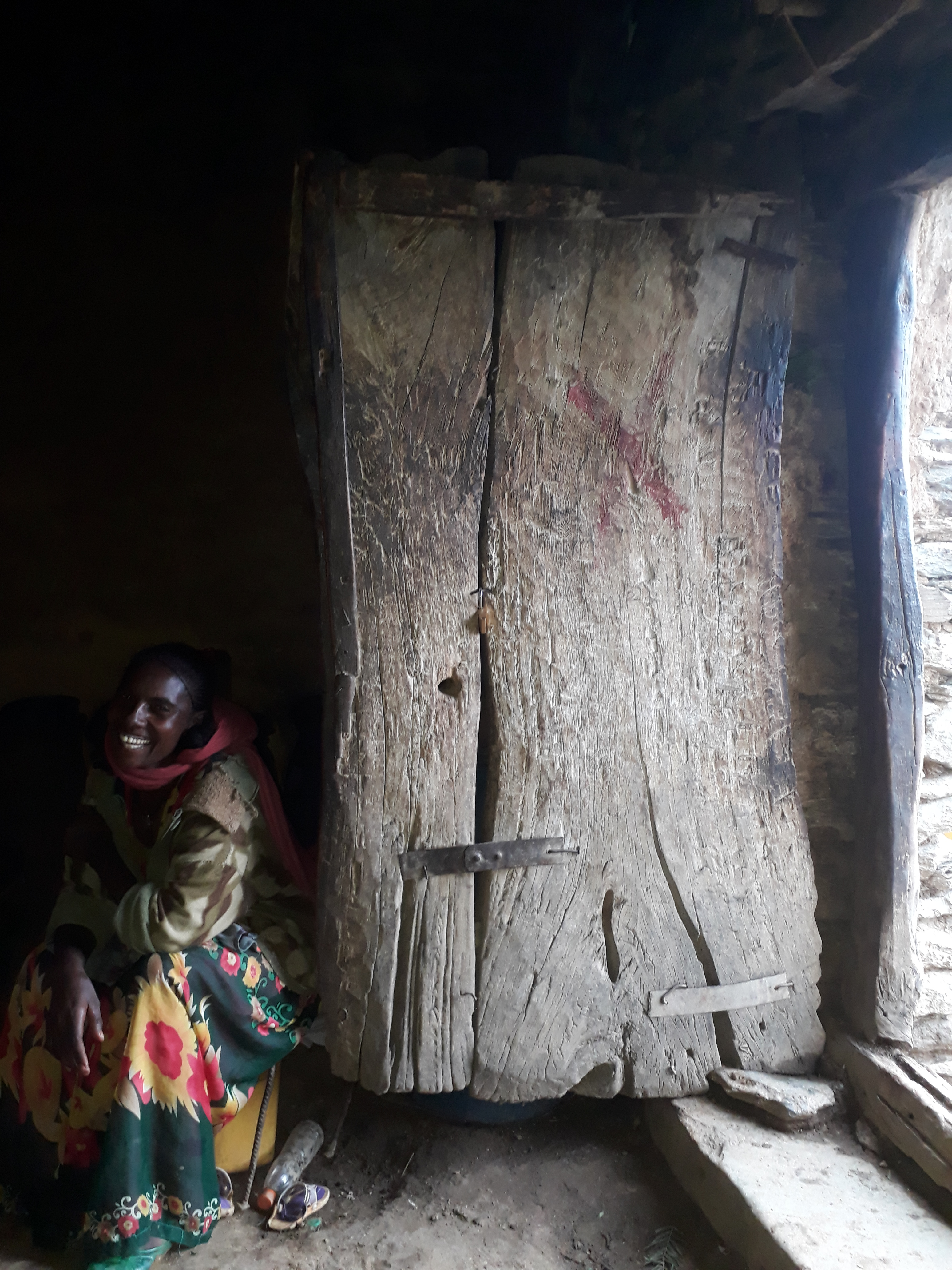 Vernacular architecture in inda suwa - wooden door - Werqamba, Ethiopia